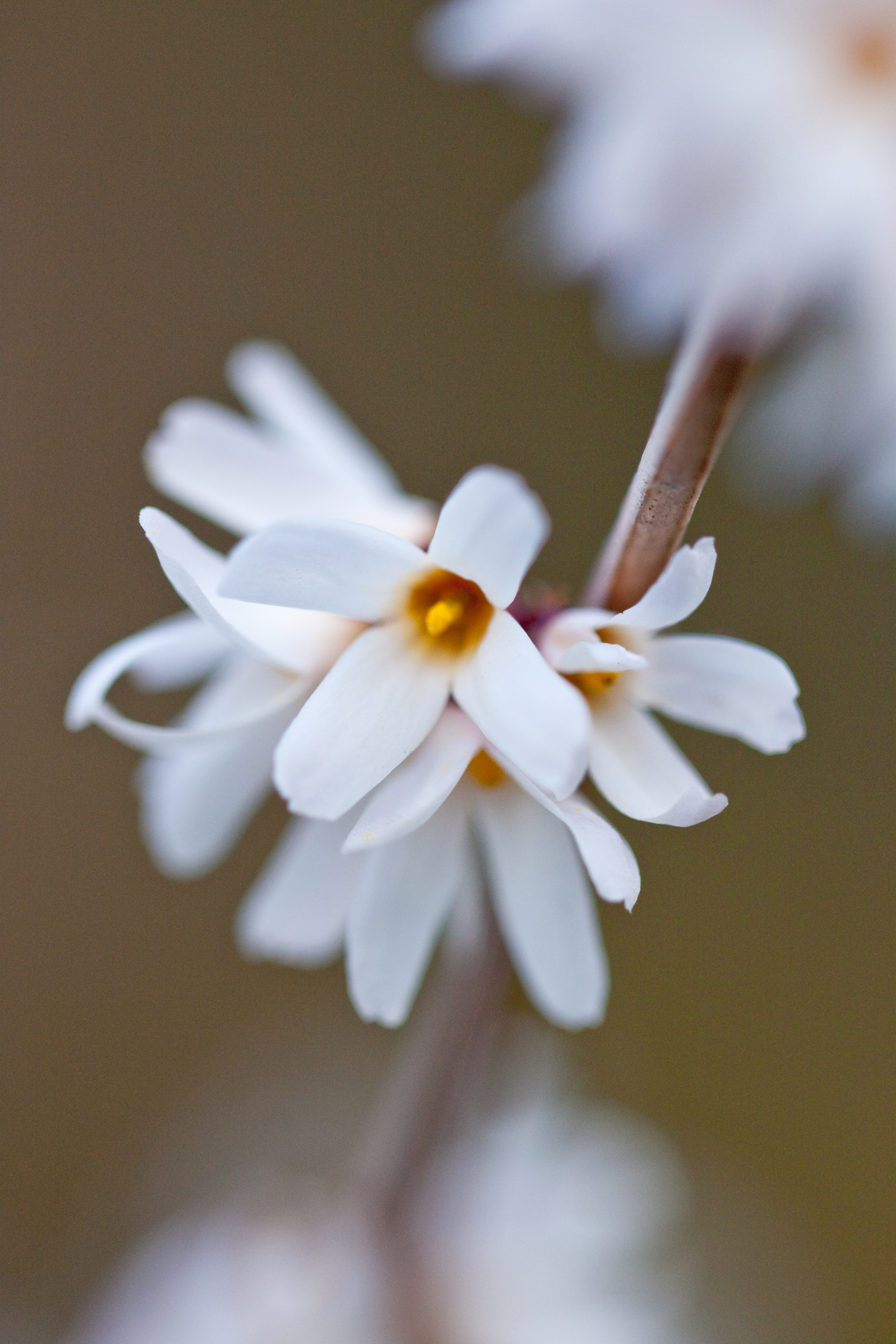 White forsythia. (Abeliophyllum distichum). ウチワノキ。一属一種。珍しい木らしいですね。別名は「白連翹」。